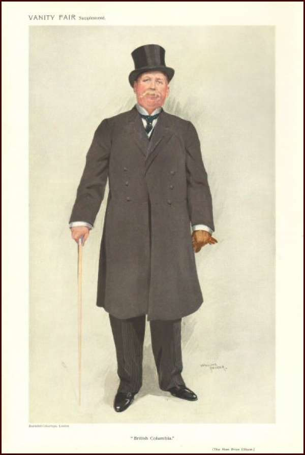 Men of the Day No.1263: Caricature of The Hon Price Ellison. Caption reads: "British Columbia"